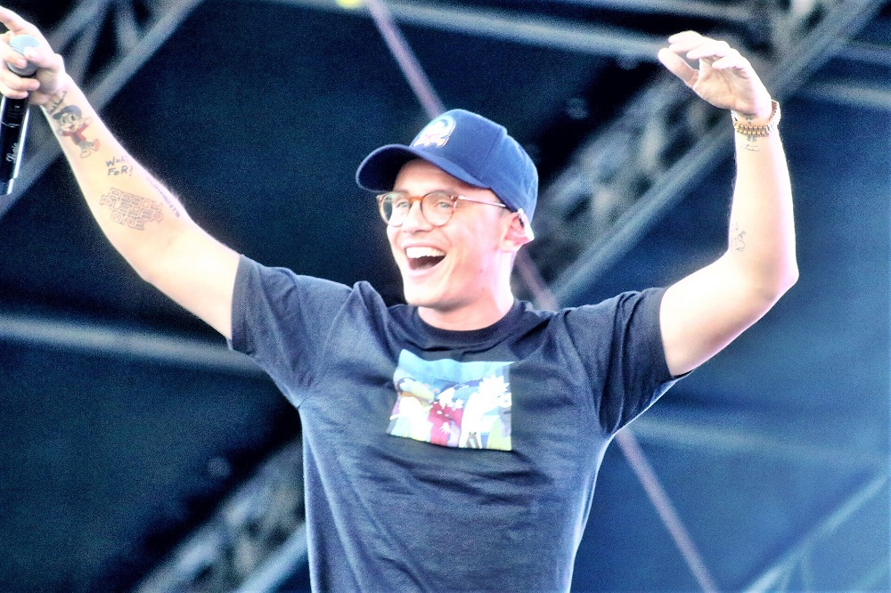 Logic performing at Grandoozy on September 14, 2018 in Denver, Colorado.